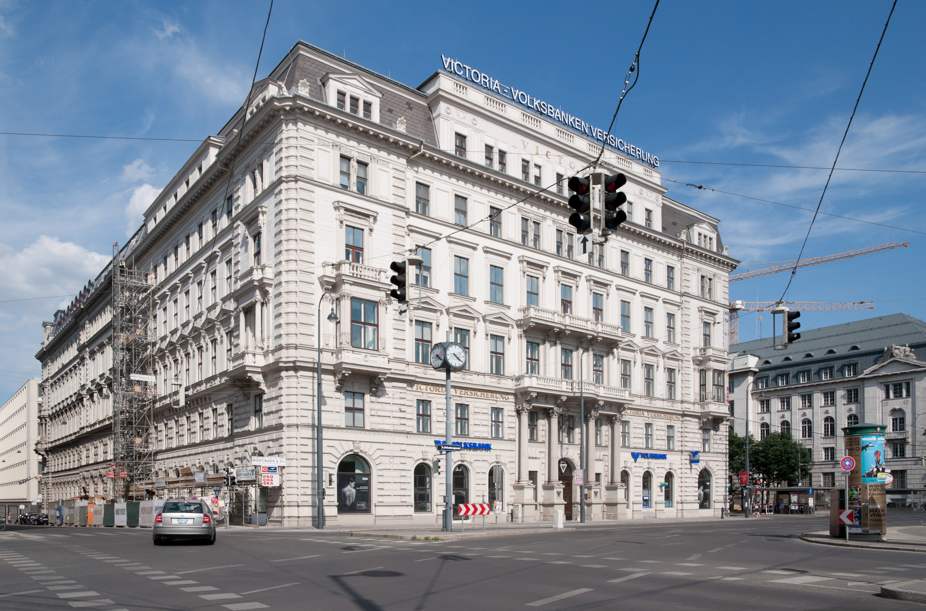 Victoria Volksbanken Versicherung (insurance company) now called ERGO, Vienna, Austria.